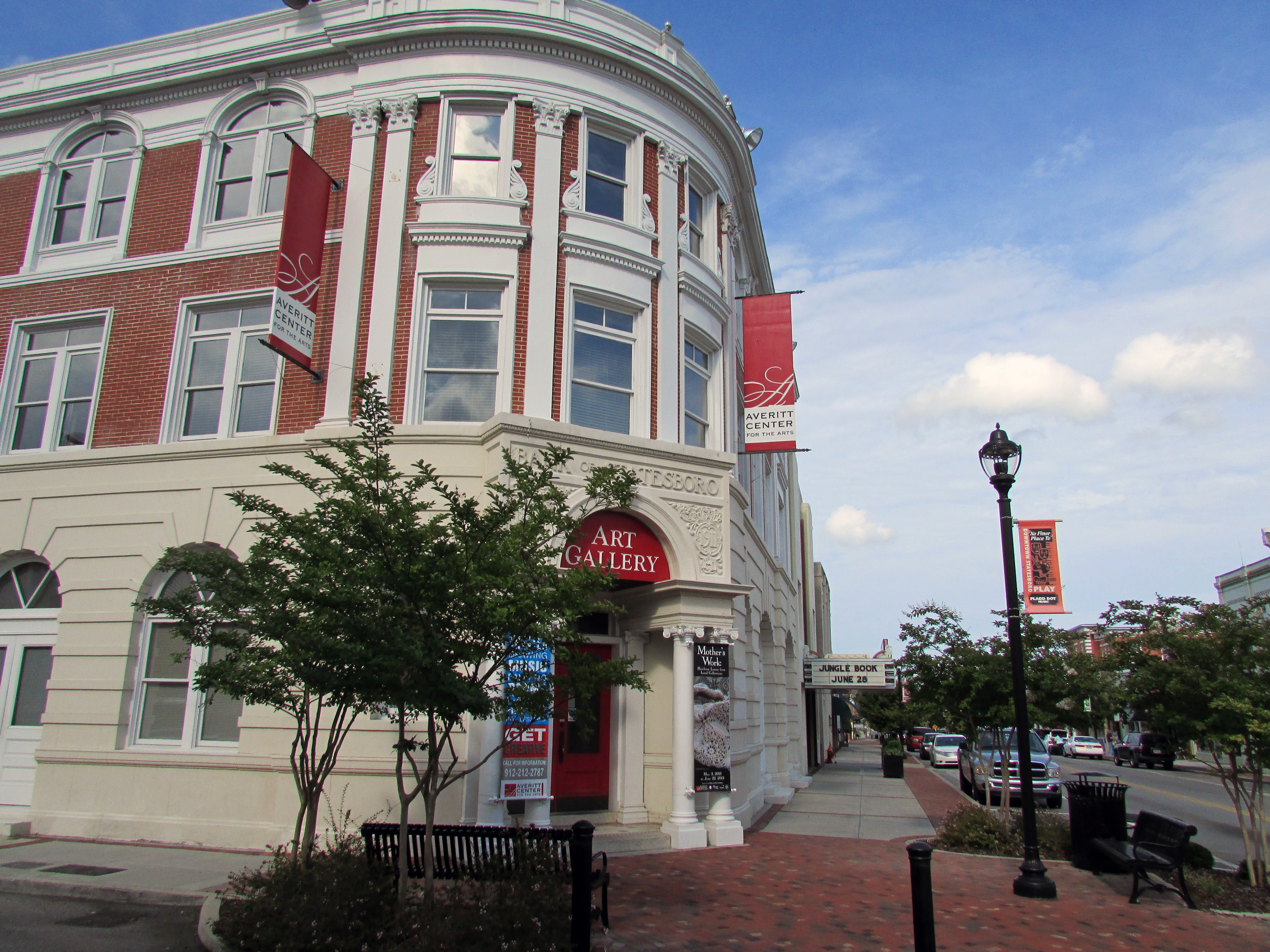 The Averitt Center for the Arts, downtown Statesboro, Georgia.